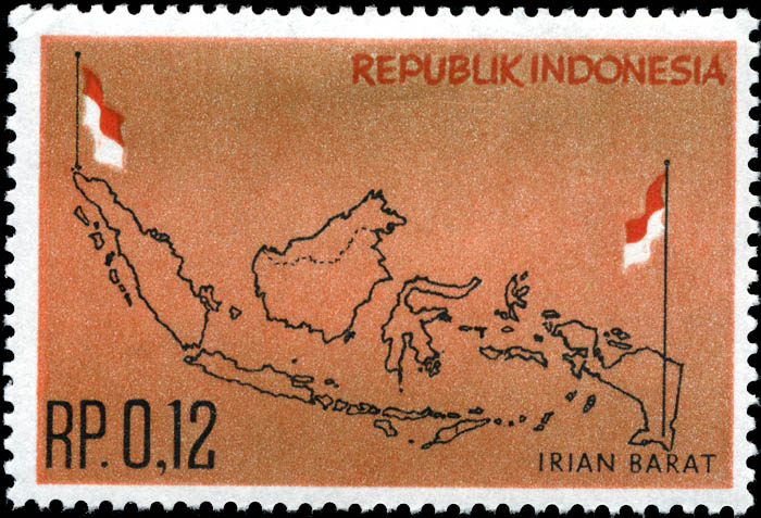 West Irian 12s stamp of 1963, scanned by User:Stan Shebs